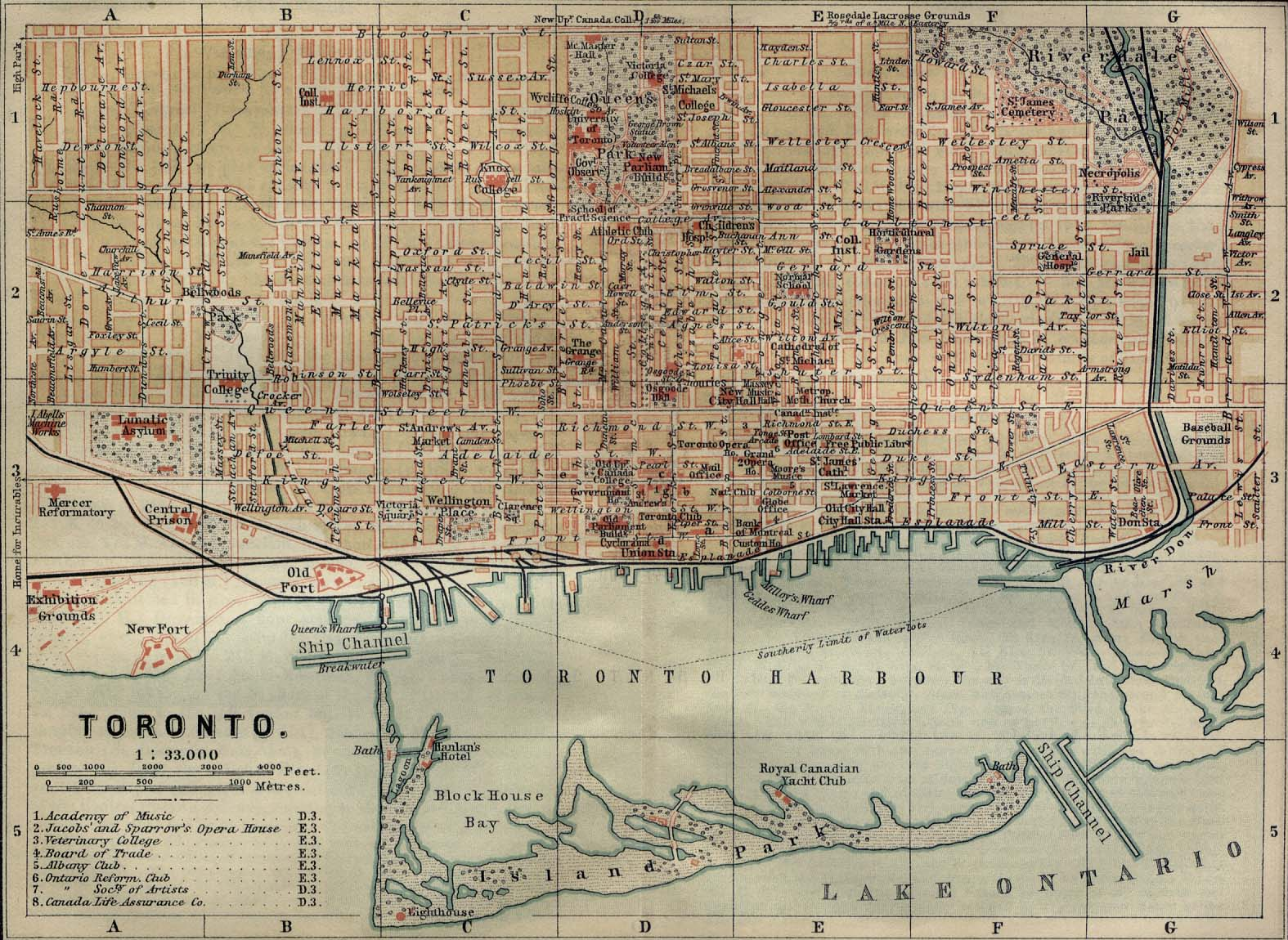 Map of Toronto